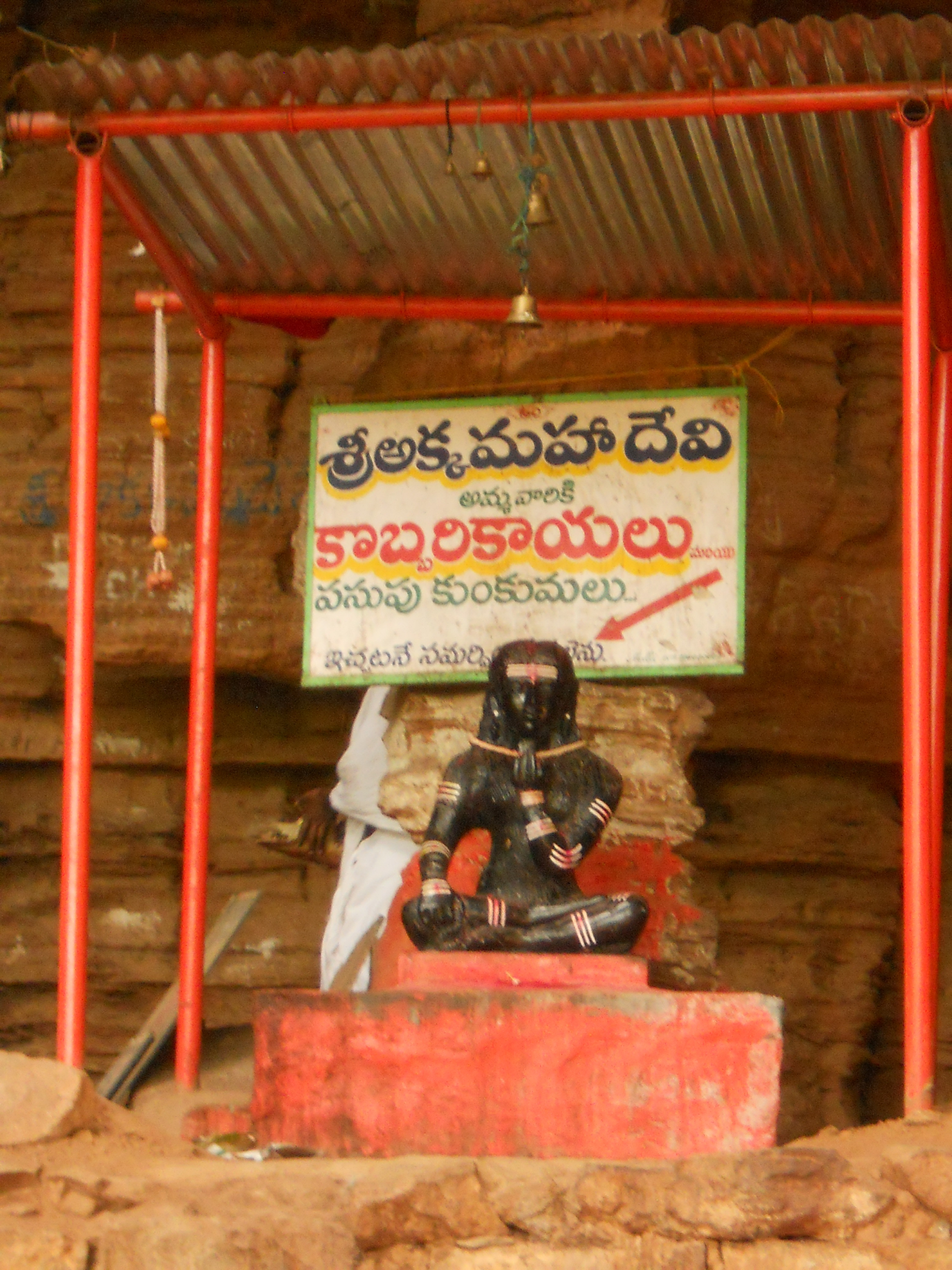 akka mahadevi diety idol at akka mahadevi caves, srisailam